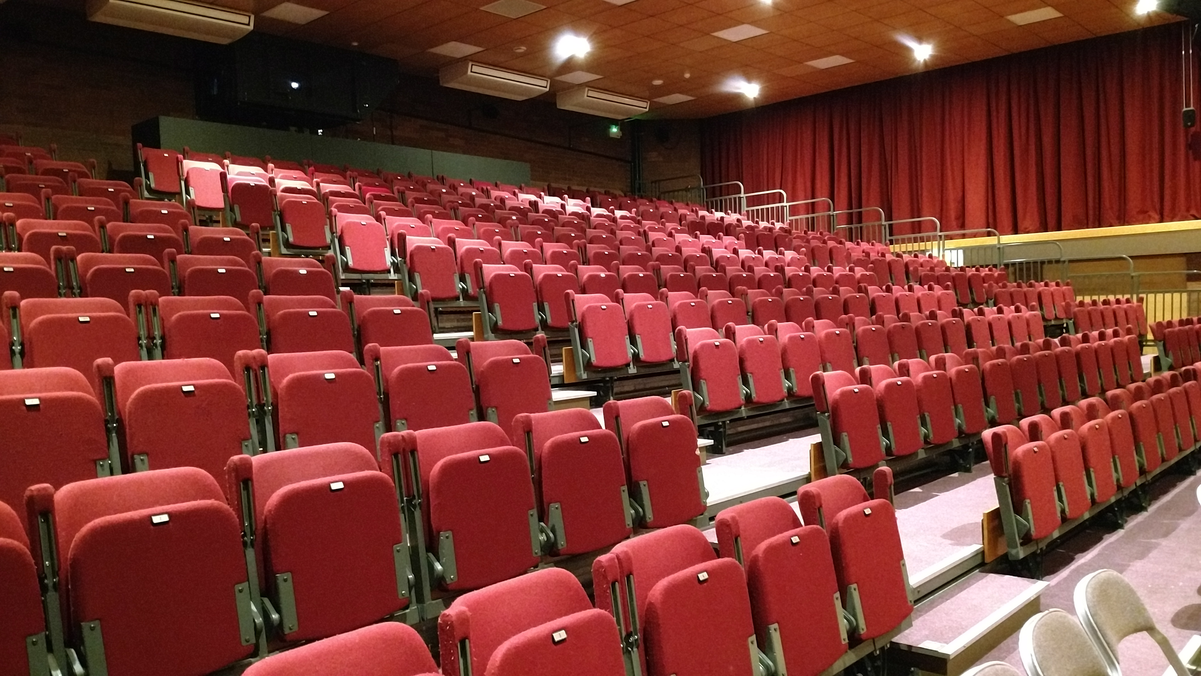 The Main Hall, The Forum Northallerton